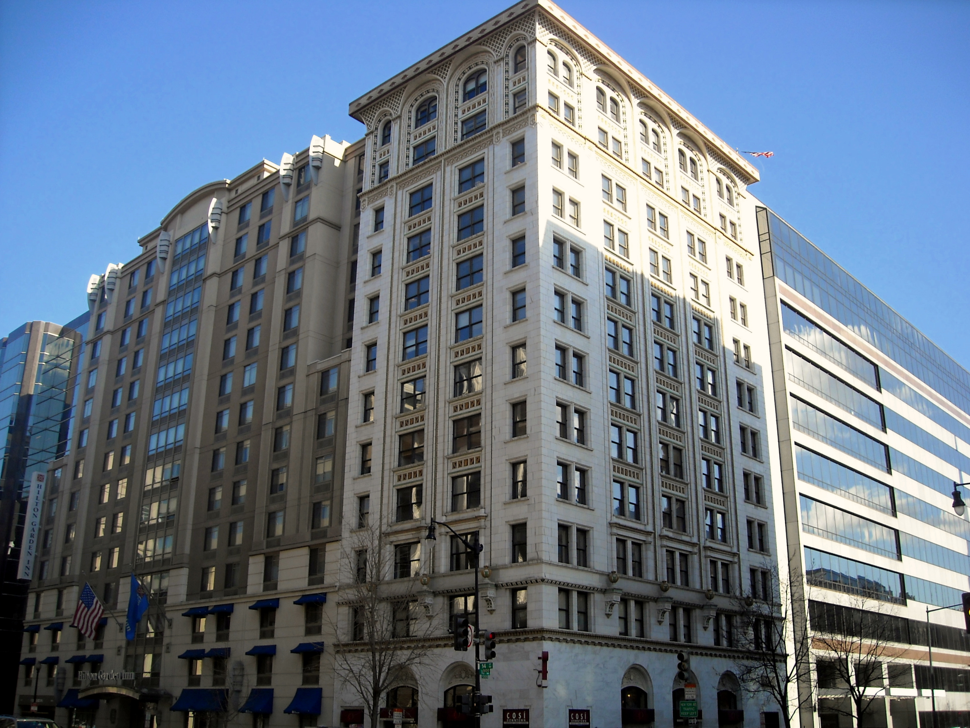 The intersection of 14th & H Streets, NW in Washington, D.C. The Beaux-Arts building visible in the center is the West Tower of 1333 H Street, a complex which includes the modern glass building seen on the right (East Tower; built 1982). The Hilton Garden Inn is the building seen on the left.